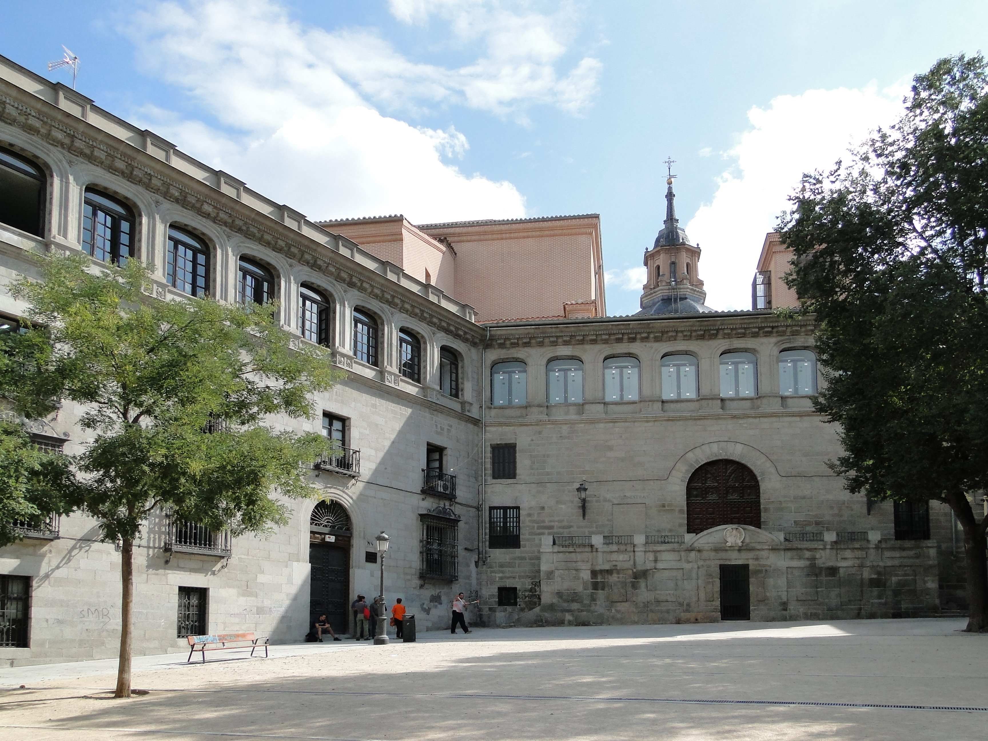 The Vargas Palace (on the left) and the Bishop's Chapel (on the right) on Plaza da la Paja, Madrid, Spain